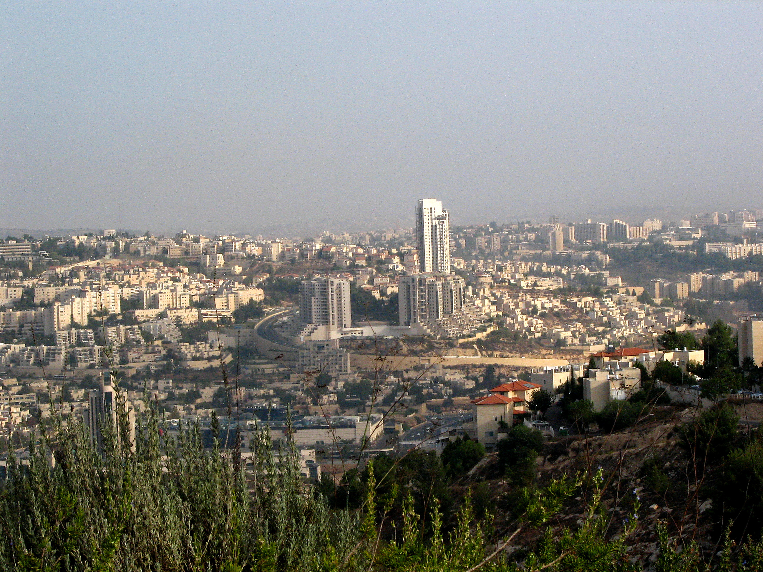 Panoramic view of Jerusalem from the neighborhood of Gilo in southern Jerusalem